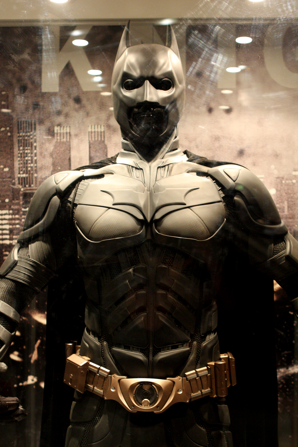 The Batman 2012's suit